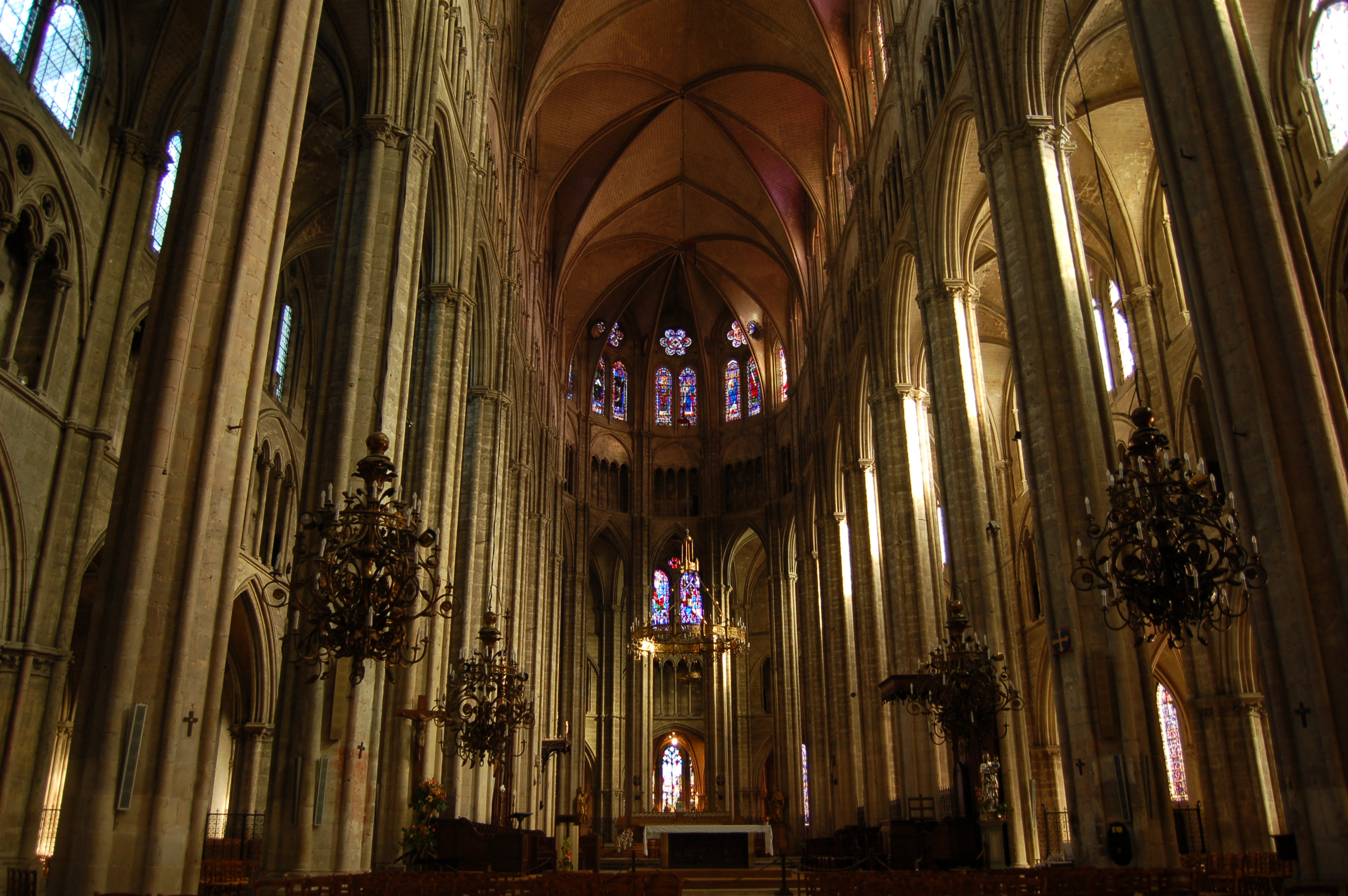 Inside of Saint-Étienne Cathedral, Bourges, France